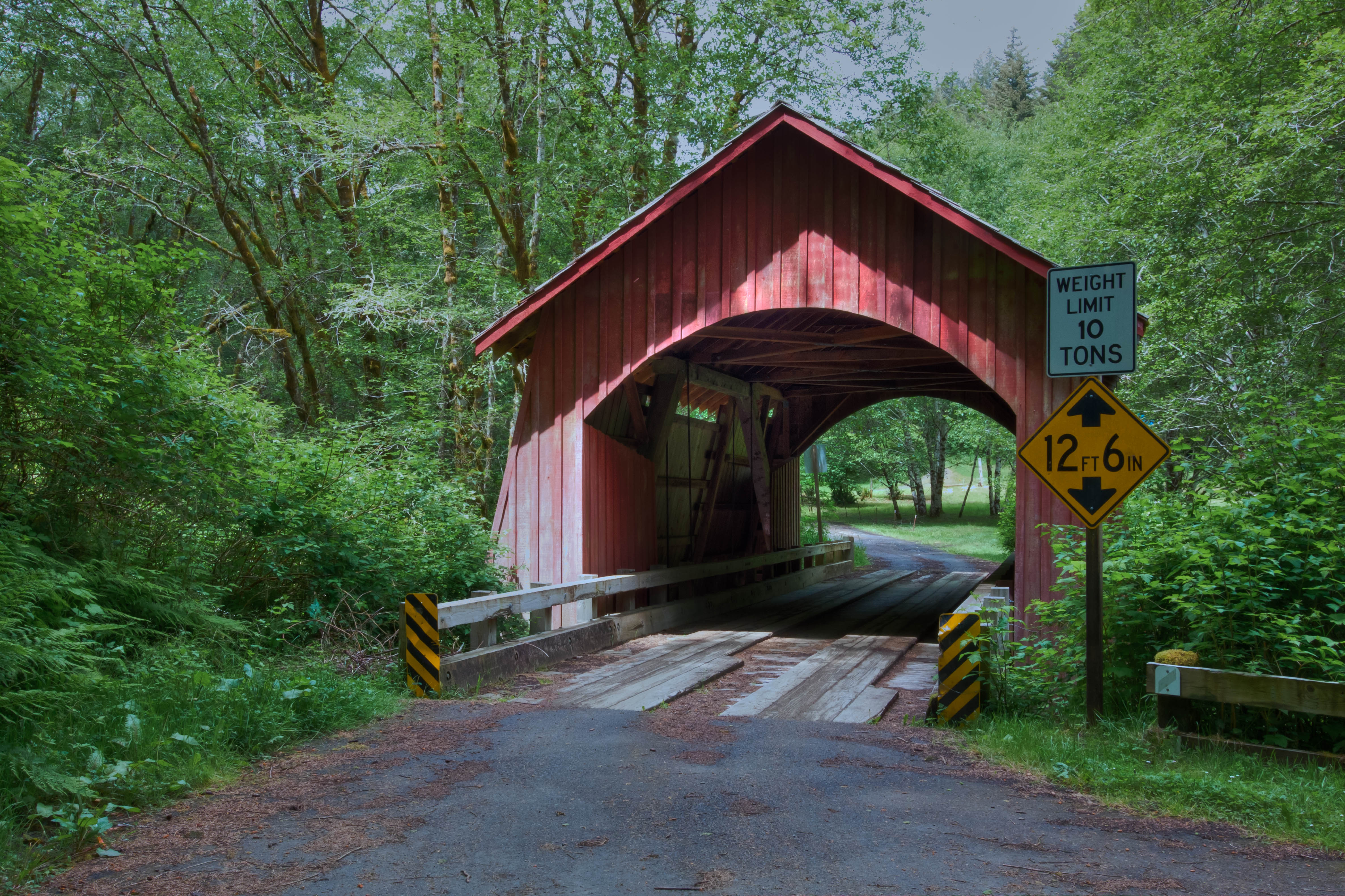 The rustic covered bridge spanning the North Fork of the Yachats cost the county only $1,500 when built in 1938, and was the last covered span constructed by veteran bridge builder Otis Hamer. Located just seven miles from the salt water of the Pacific Ocean, this trim little bridge is one of the few to escape the "graffiti artists" so common in many other covered bridges. Since the covered span is the only access for families in the area, the bridge roof was removed to allow a mobile home to cross in the early 1980s. In 1987, a loaded fuel truck crashed through a weakened approach on the bridge and the accident ruptured a fuel tank. Luckily, no fuel reached the river, and county crews soon repaired damage to the bridge. The bridge was rehabilitated in 1989 when work crews replaced the trusses and approaches. A new roof and siding were also added. A dedication in December 1989 officially re-opened the bridge to traffic. The engineer who designed the remodeling stated the bridge, with proper maintenance, should last another 50 years. The nearby community was established in 1880 as Ocean View, and was changed to Yachats in 1916 in salutation to a local tribe. The name "Yachats," according to the tribe, means "at the foot of the mountain," an appropriate nomenclature for both the bridge and the community.